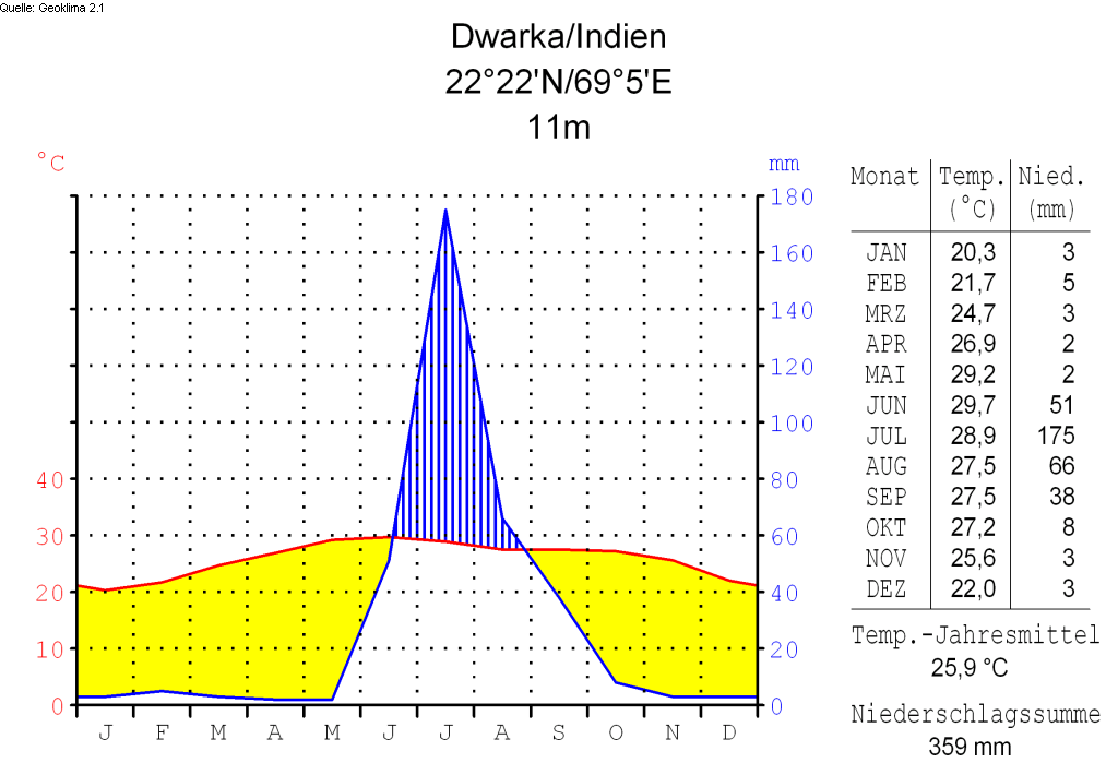 climate chart in the format by Walter and Lieth, metric, °Celsisus and millimeters, made with Geoklima 2.1